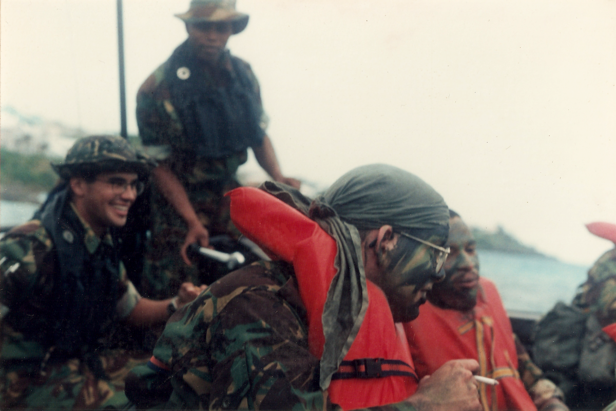 Bermuda Regiment soldiers aboard a motor boat off of the North Shore of Bermuda, 1996. Author of image is myself, Seán Pòl Ó Creachmhaoil.